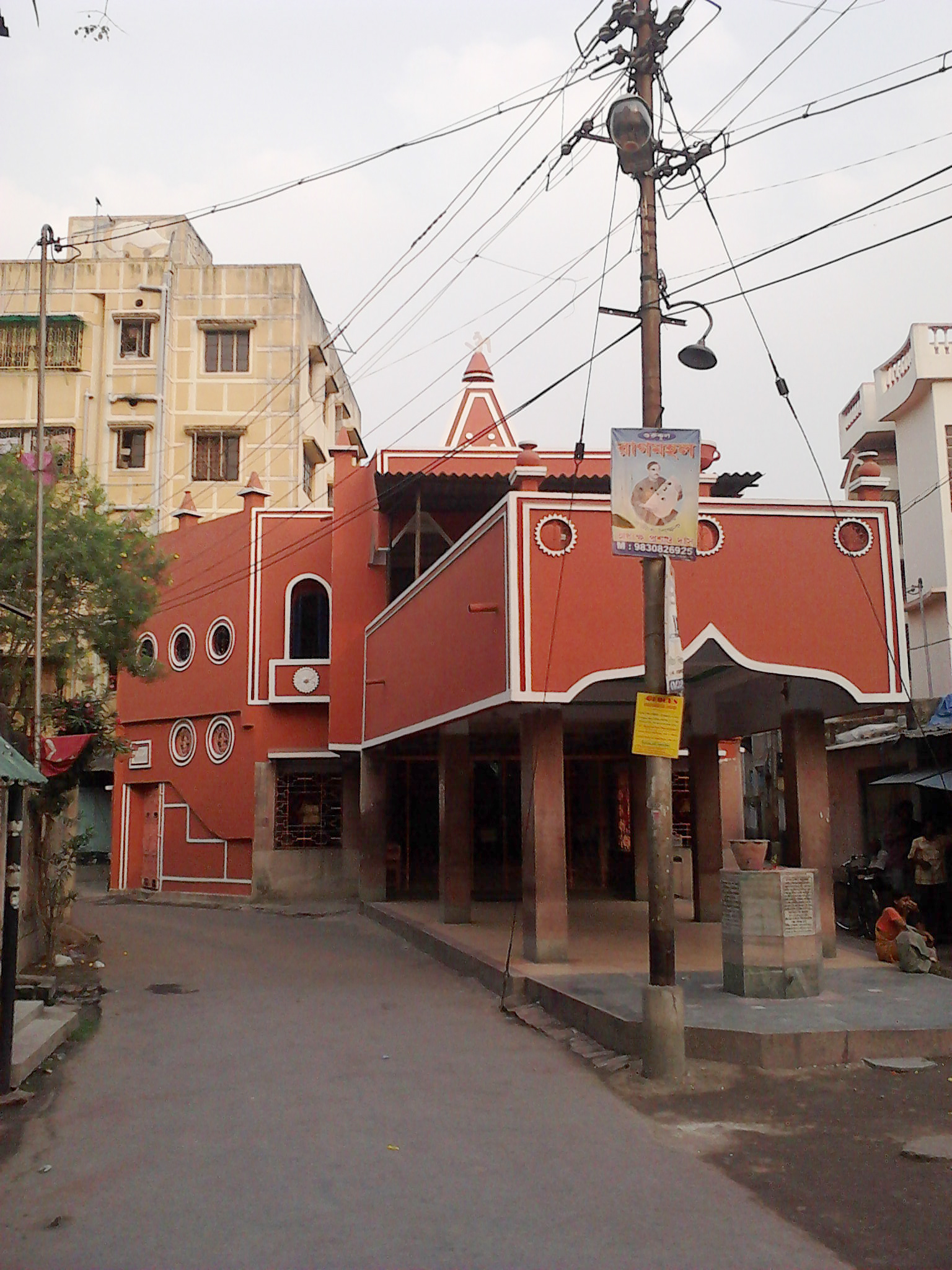 East Sinthee Shyamasundari temple (bn: Purba Sinthee Shyamasundari Mandir or Bara Kalibari) at very near to Dum Dum railway station.